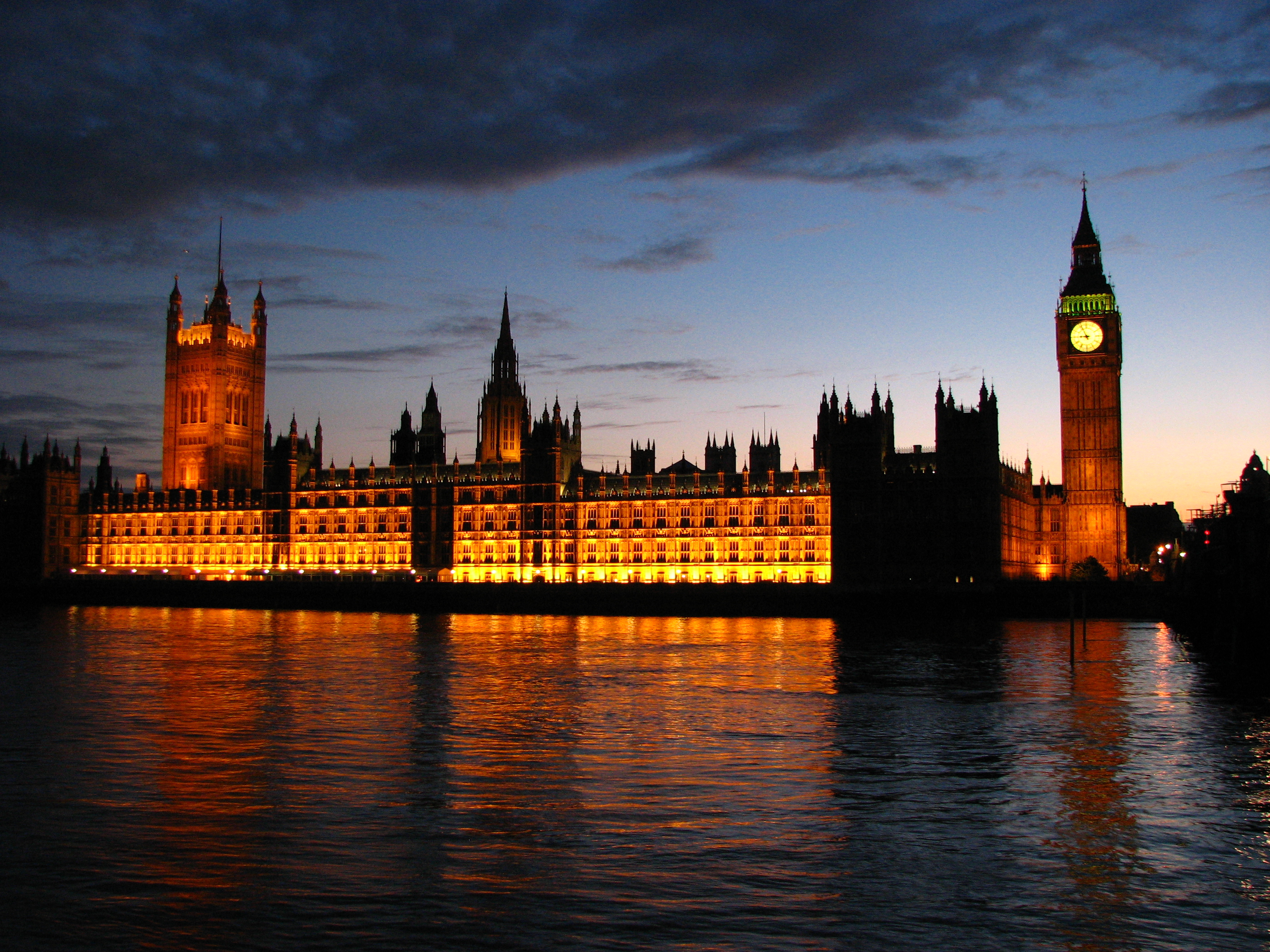 Palace of Westminster.